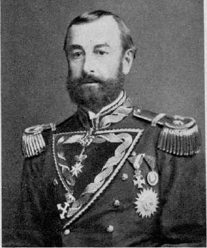 Hermann Goedel-Lannoy (1820-1892), Politician and nobleman